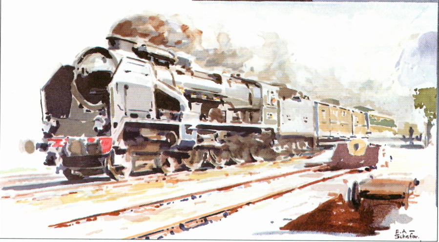 Locomotive